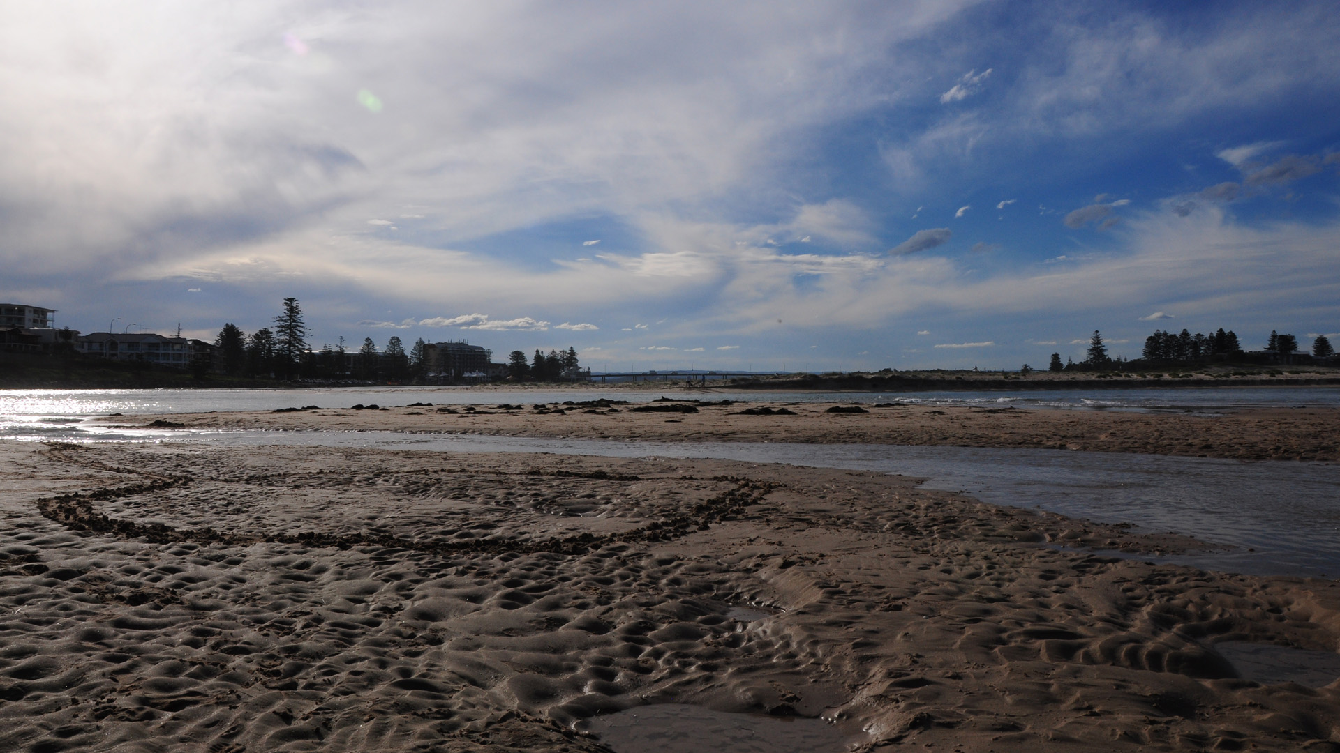 The Entrance